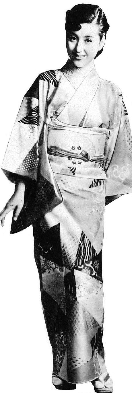 A young woman wearing Isesaki-kasuri kimono